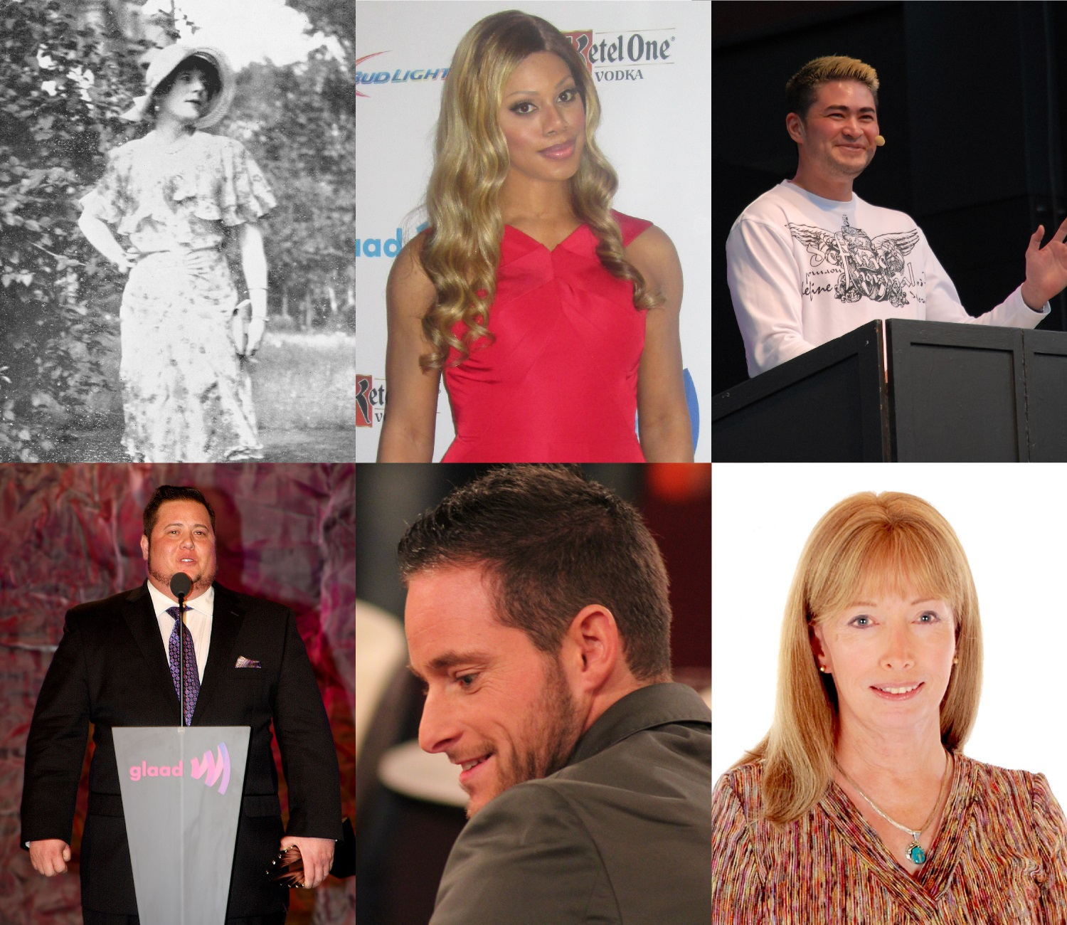 Photo collage of some notable transgender people. Left-to-right from top to bottom: Lili Elbe, Laverne Cox, Thomas Beatie, Chaz Bono, Balian Buschbaum, and Lynn Conway.